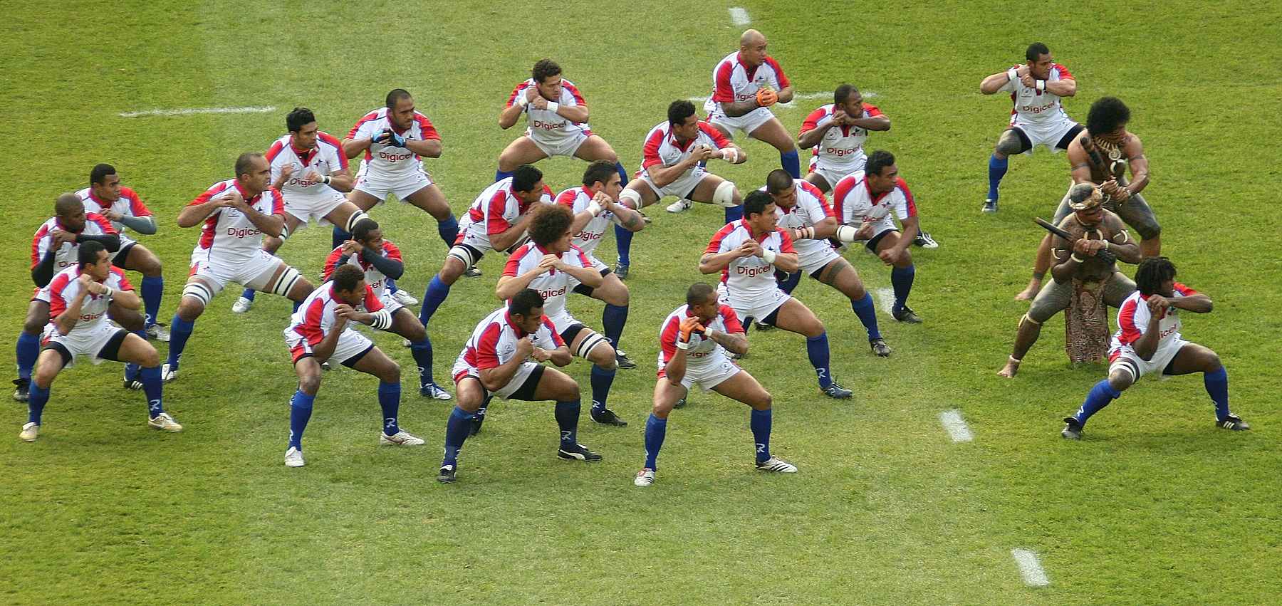 Pacific Islanders v Scotland @ Murrayfield; the 'sipi-tau' dance is performed by the Pacific Islanders team before the game.